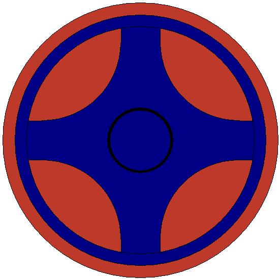 Shield pattern of "Legio I Flavia Pacis" in the early 5th century. Source: Notitia Dignitatum Occ. V.